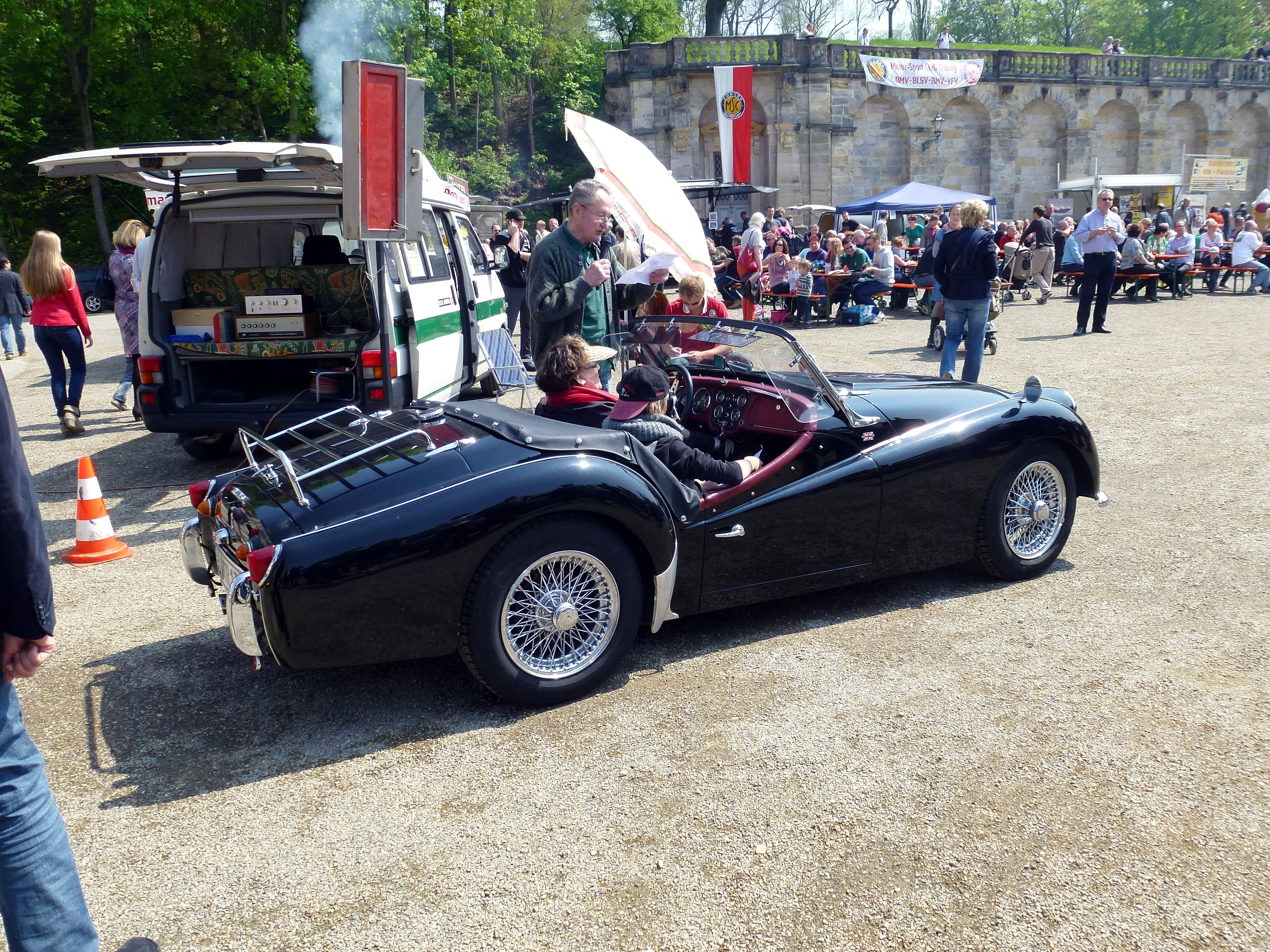 Coburg Oldtimertreffen May 5, 2013 - Hubertus Ernst at the reception desk of a Triumph TR3 sports car